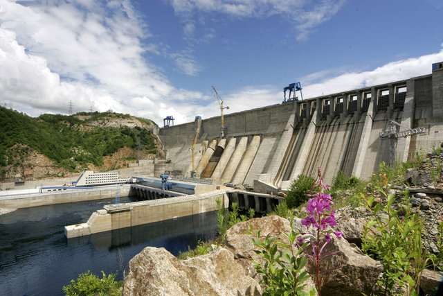 Bureya HPP